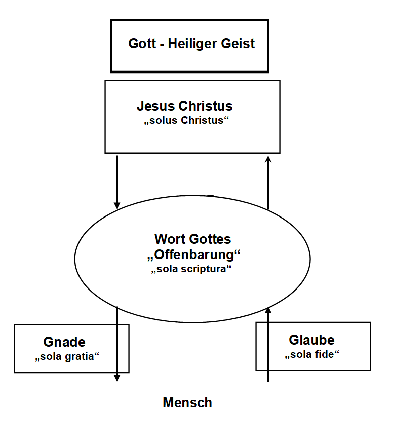 Luther´s Doctrine of Justification